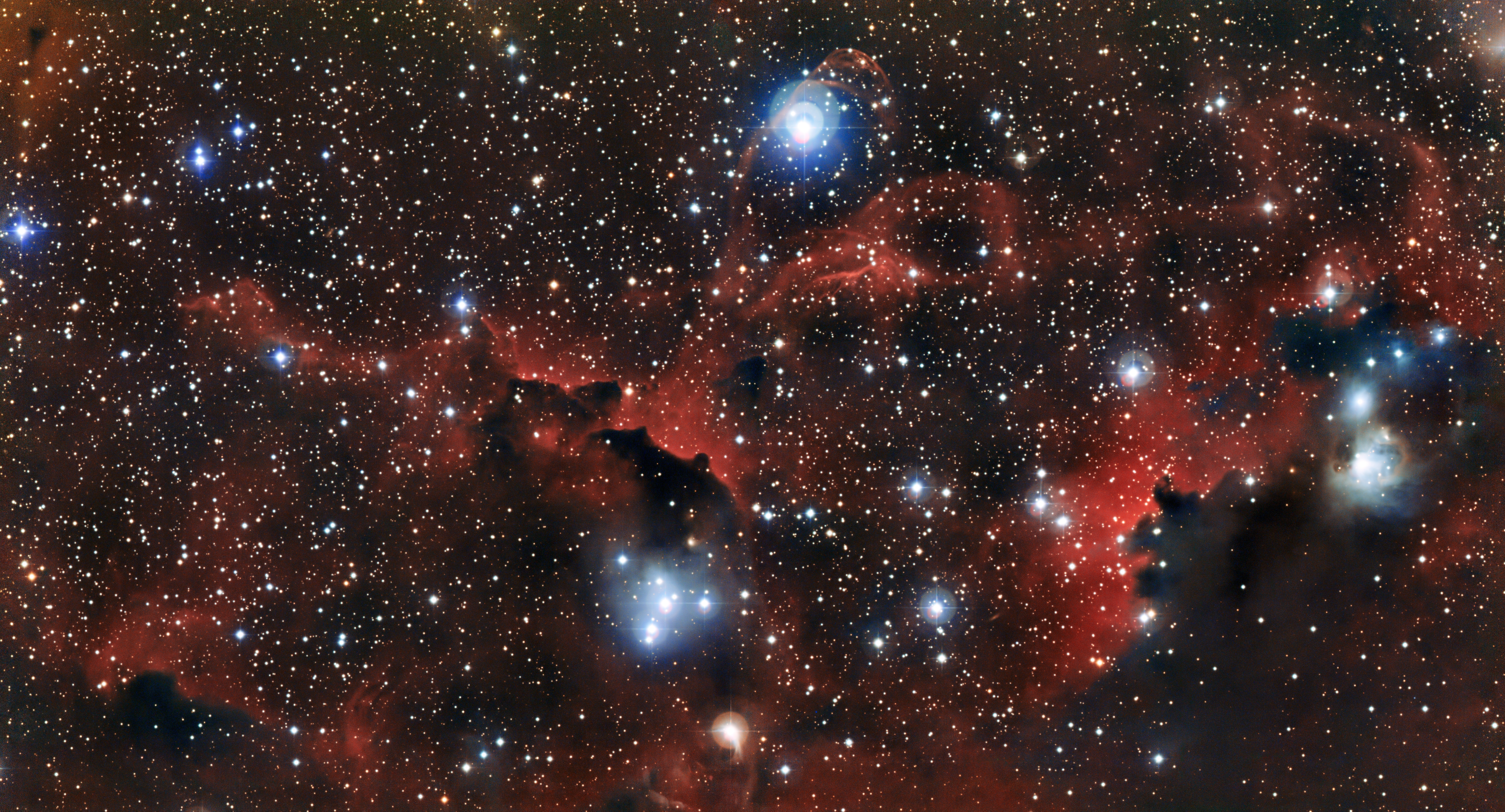 This image shows the intricate structure of part of the Seagull Nebula, known more formally as IC 2177. These wisps of gas and dust are known as Sharpless 2-296 (officially Sh 2-296) and form part of the “wings” of the celestial bird. This region of the sky is a fascinating muddle of intriguing astronomical objects — a mix of dark and glowing red clouds, weaving amongst bright stars. This new view was captured by the Wide Field Imager on the MPG/ESO 2.2-metre telescope at ESO’s La Silla Observatory in Chile.